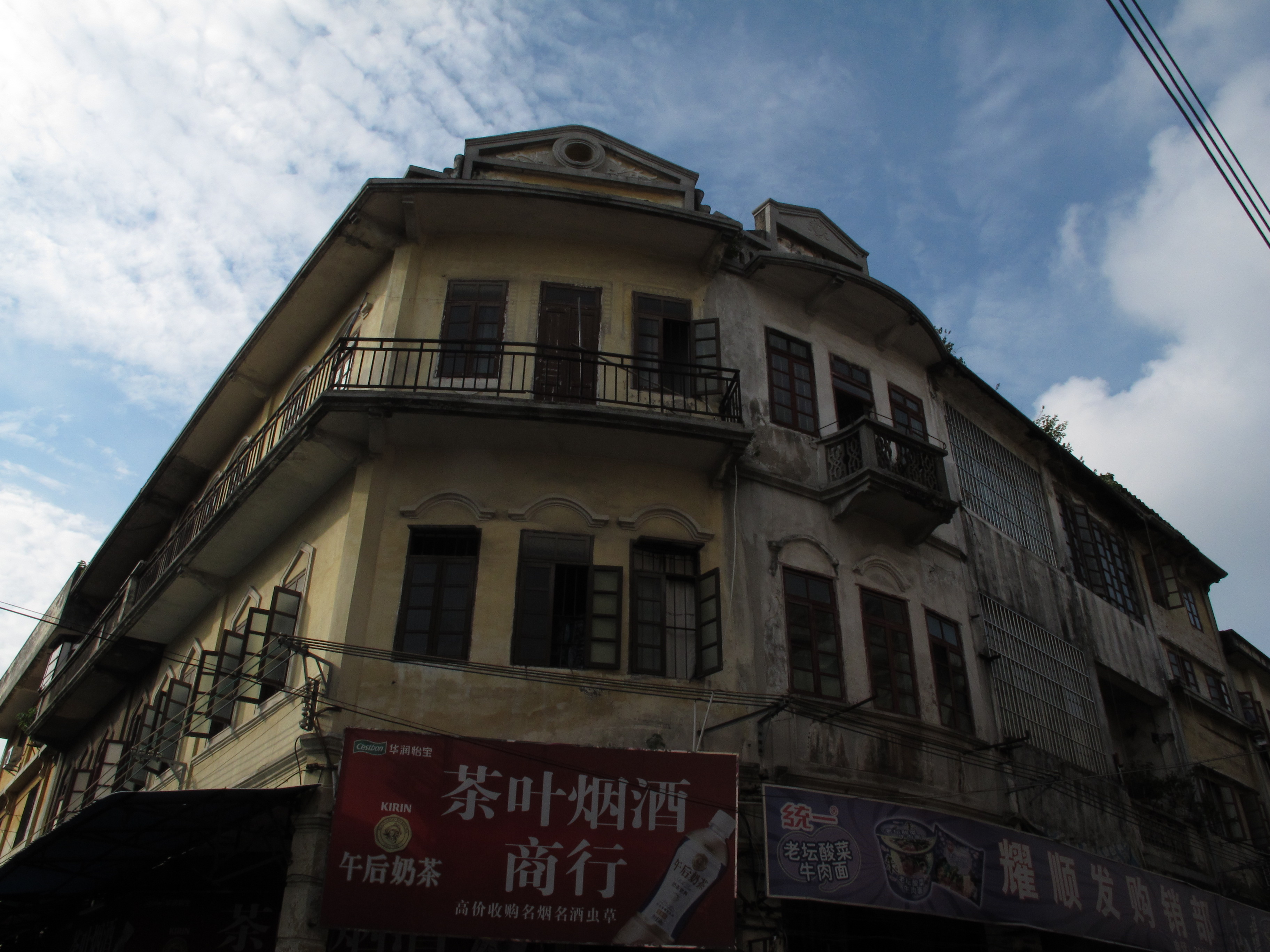 An old building in the old city of Jiangmen at the Lian Ping Road (surrounded by all kinds of wholesaler).